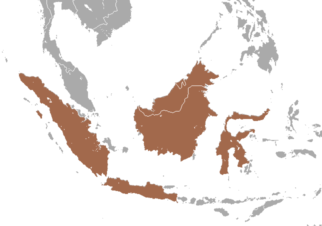 Minute Fruit Bat (Cynopterus minutus) range